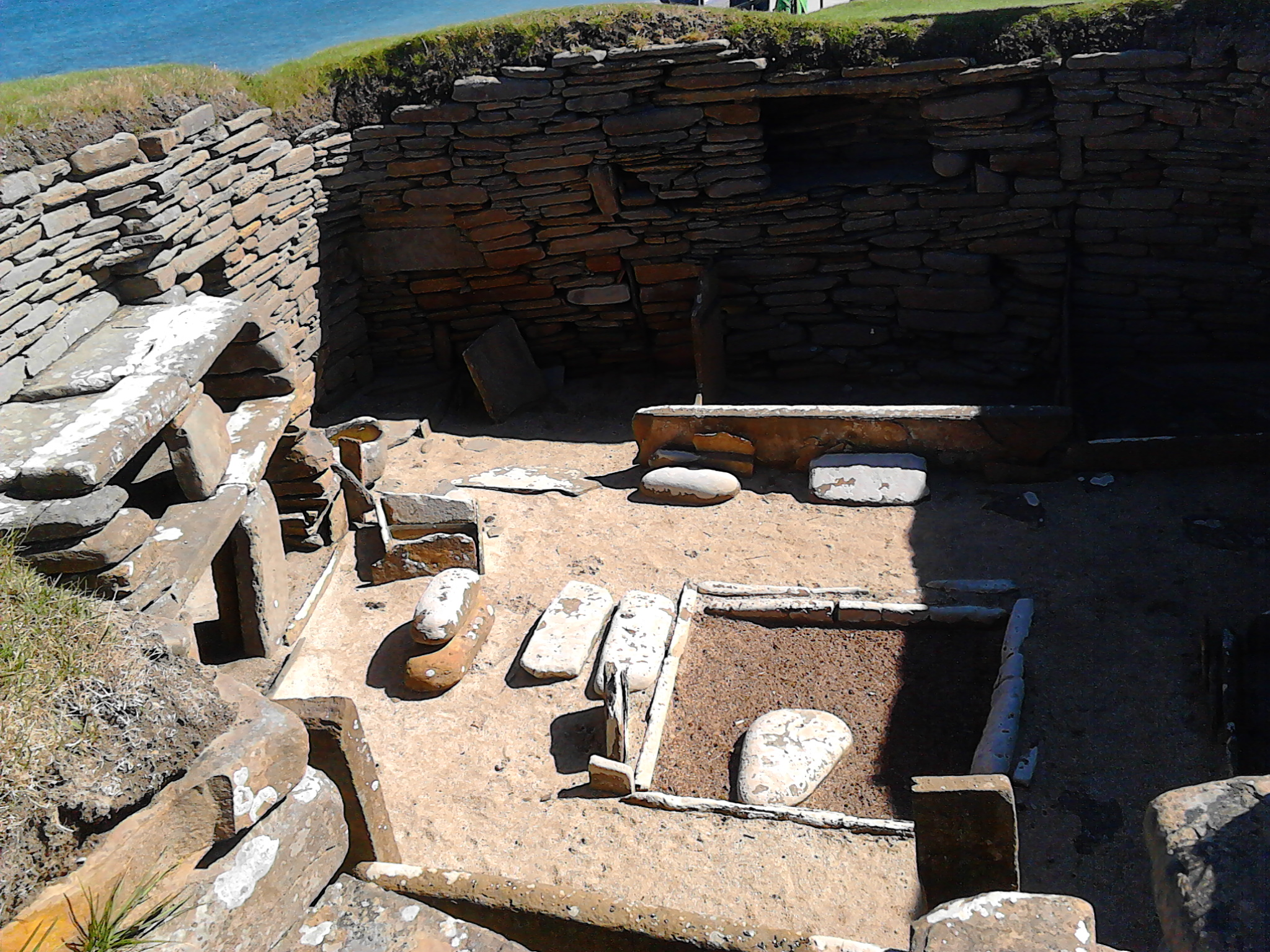 Skara Brae, from my visit on 8th July 2016. A view of the north wall of building #1.